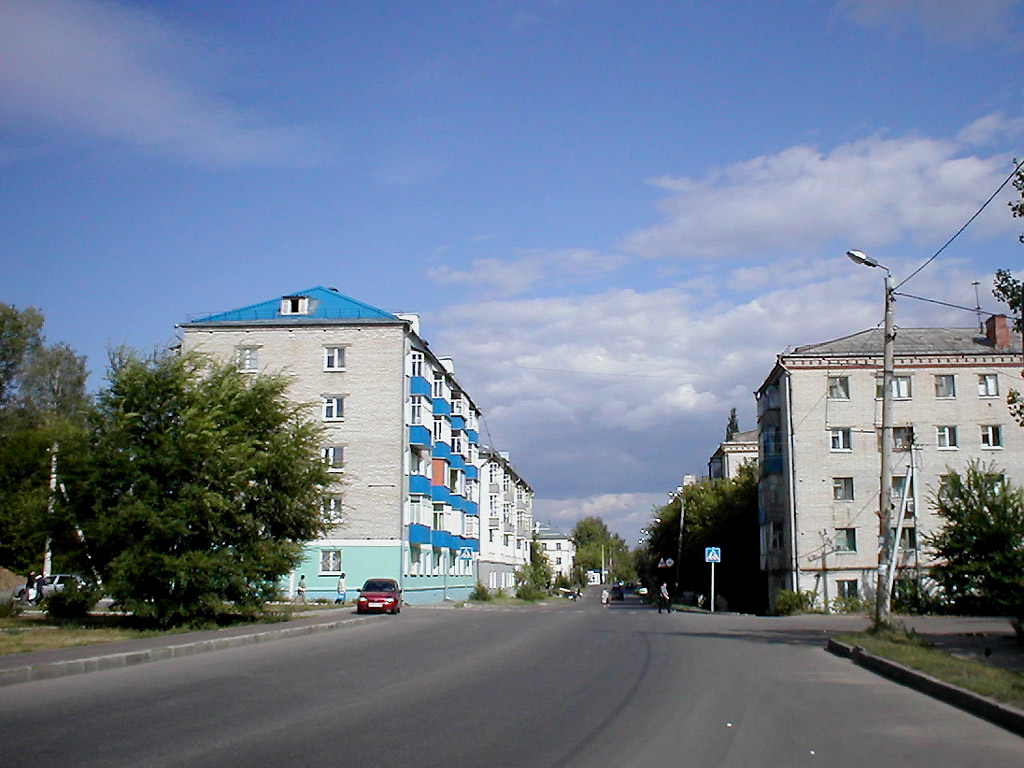 Krasikov Lieutenant street near Glory Alley square in Yudino locality in Kazan